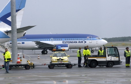 Tallinn Airport - also the largest airfield in Estonia.